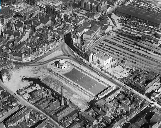 An aerial photograph of the Hall of Memory in central Birmingham in 1932.